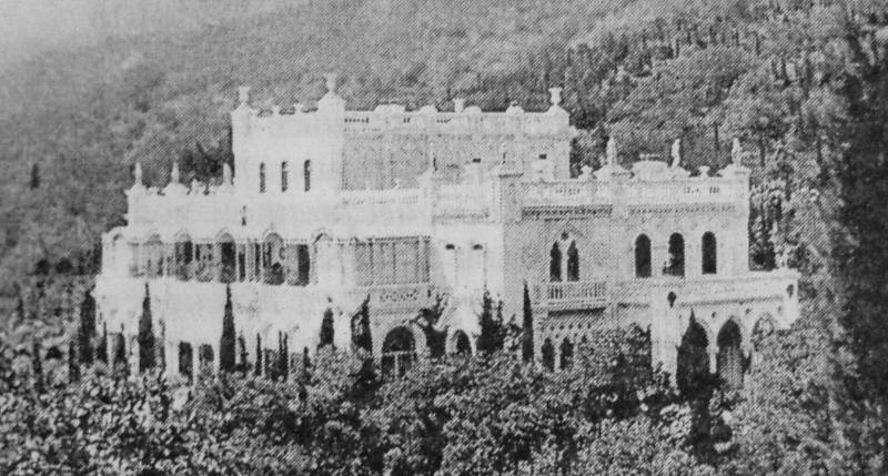 Palace of Kokorev Muhalatka Crimea